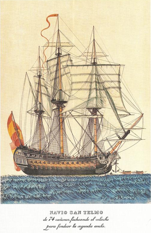 Spanish naval ship San Telmo, painted by Alejo Berlinguero (1750-1810), Madrid Naval Museum